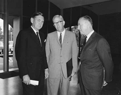 Attendees at the third regional meeting of National Scientific Research Organisations held in Canberra from 17 - 21 February 1964. Left to right: Senator John Gorton (minister-in-charge of the CSIRO), Sir Fred White (chairman of the CSIRO), René Maheu (director-general of UNESCO). The photograph was taken in the foyer of the Australian Academy of Science.